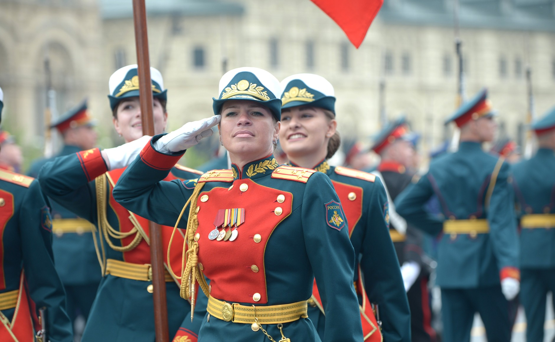 Военный парад на Красной площади в ознаменование 74-й годовщины Победы в Великой Отечественной войне 1941–1945 годов